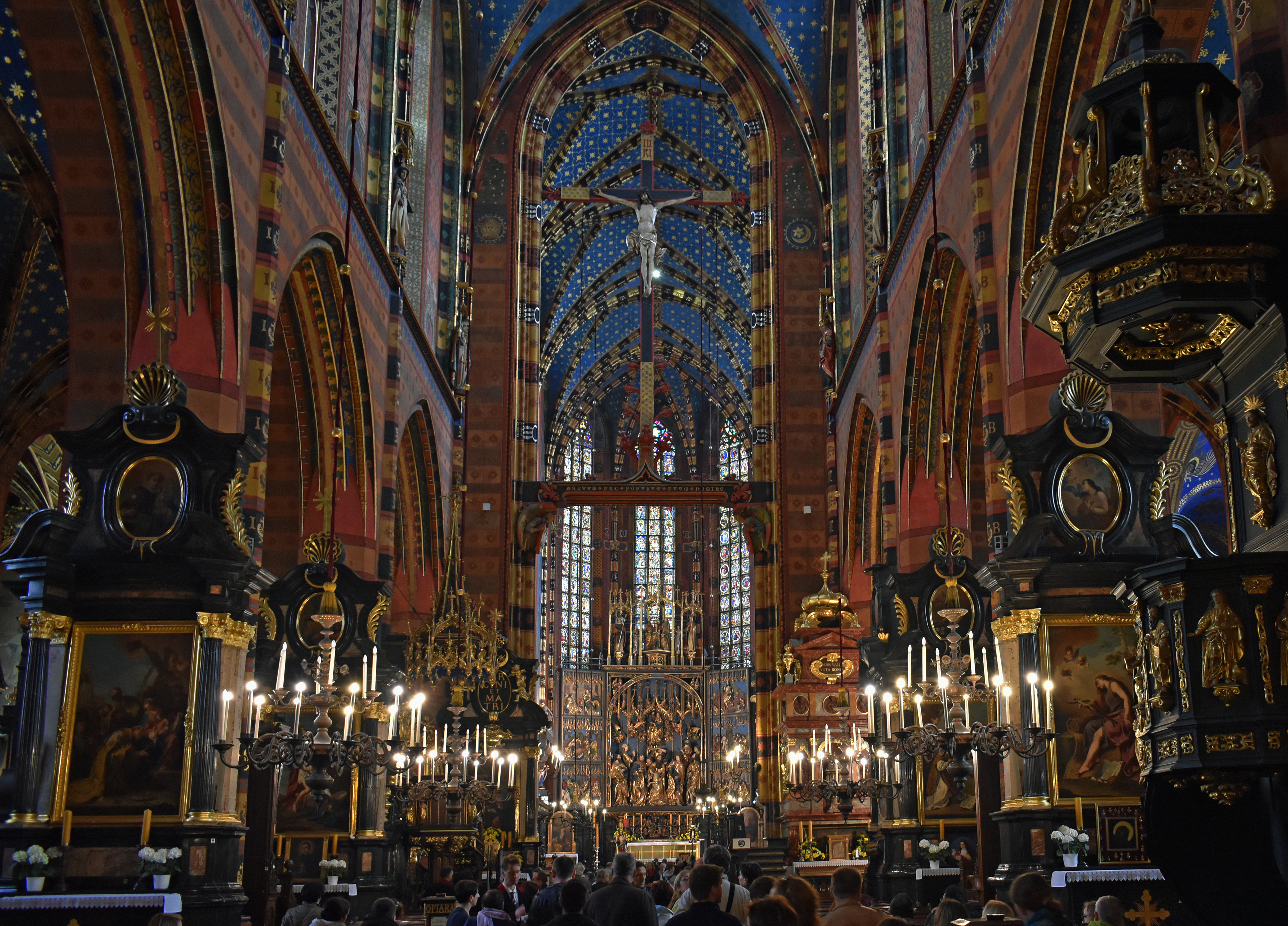 Church of Our Lady Assumed into Heaven (St. Mary's Church), interior-main nave, 5 Mariacki square, Old Town, Krakow, Poland